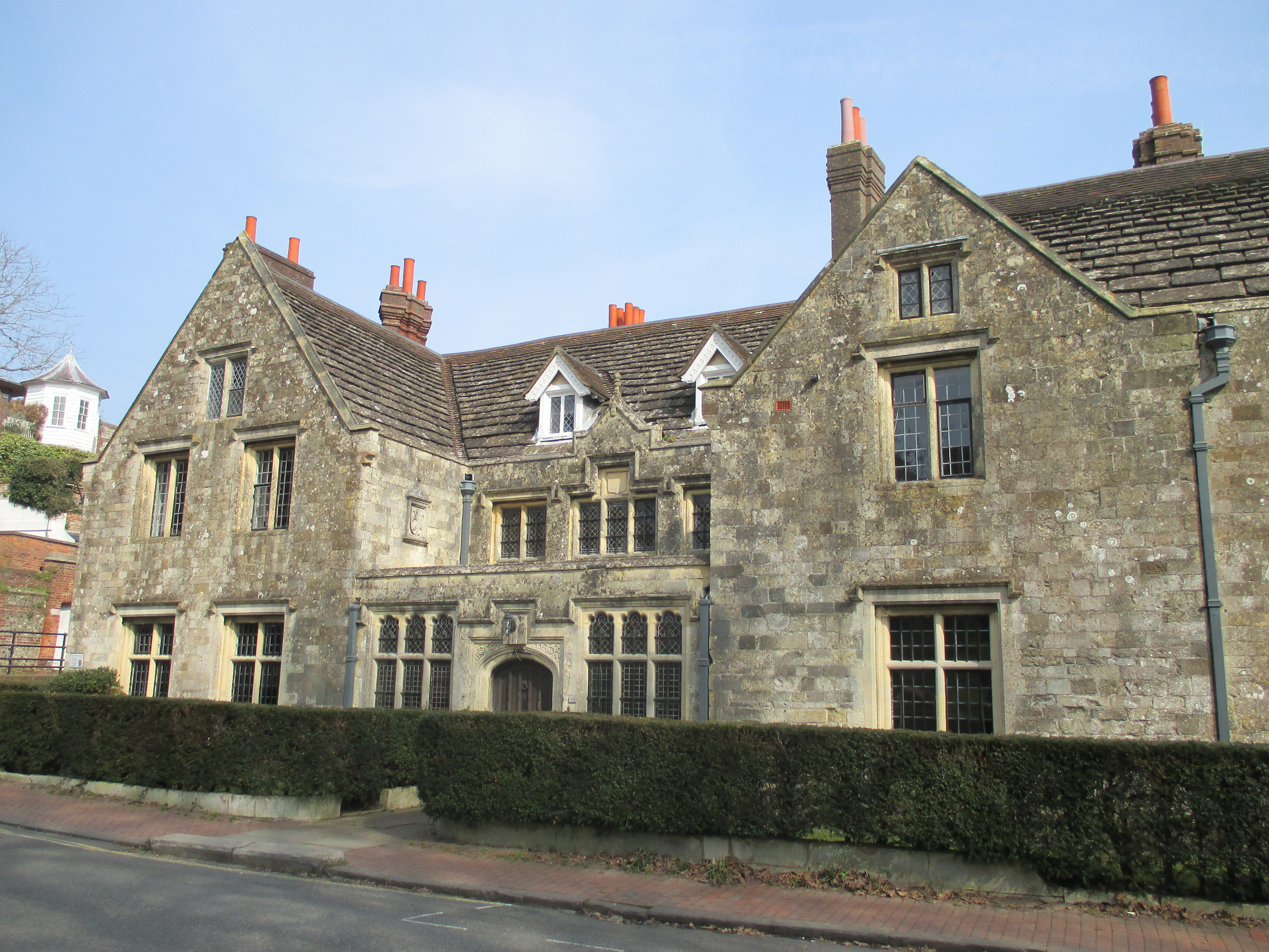 The front of Southover Grange, Southover High Street, Lewes, East Sussex, photographed from the south.